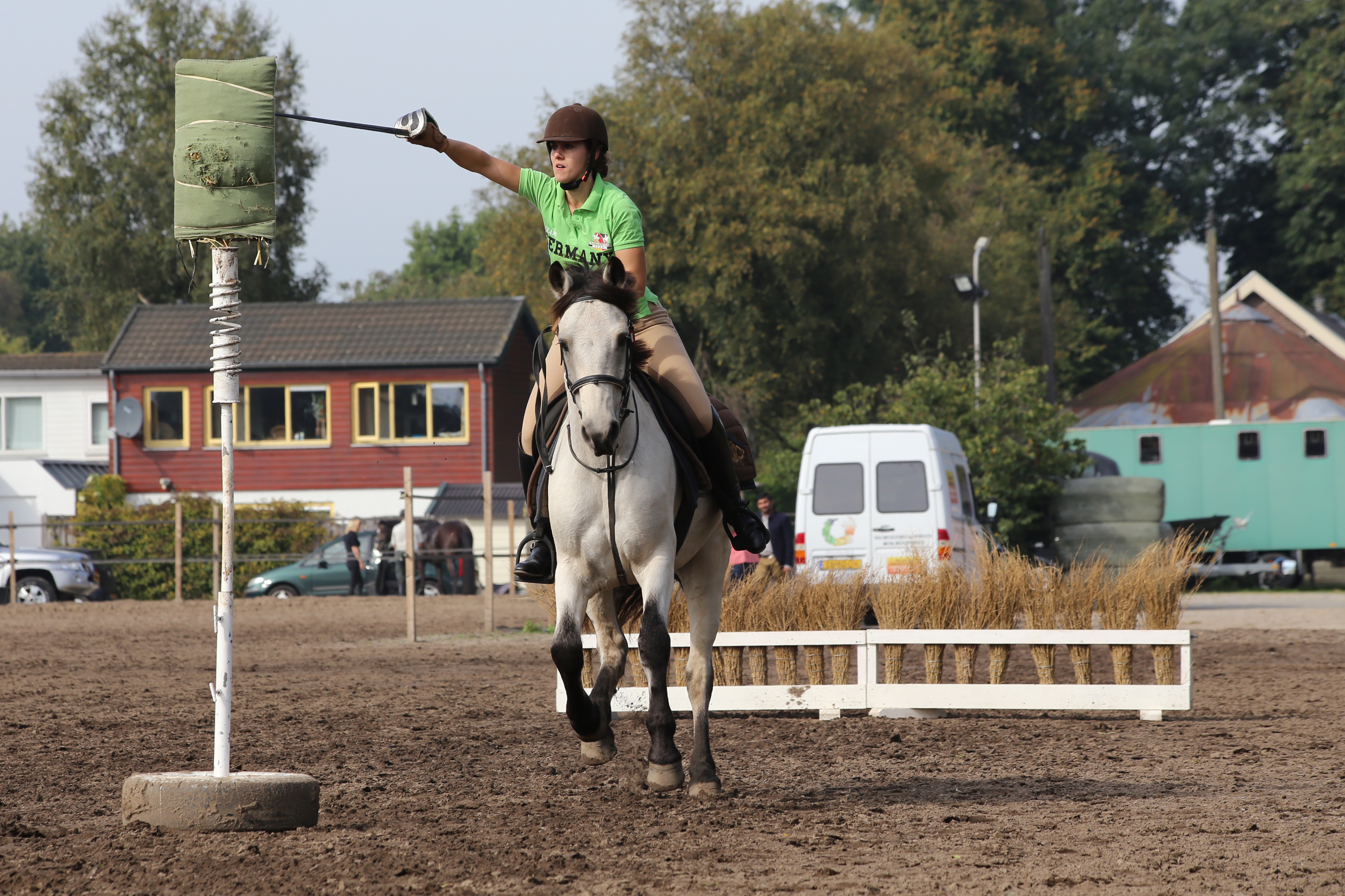 "Skill at Arms" tentpegging competition at a tournament in the Netherlands